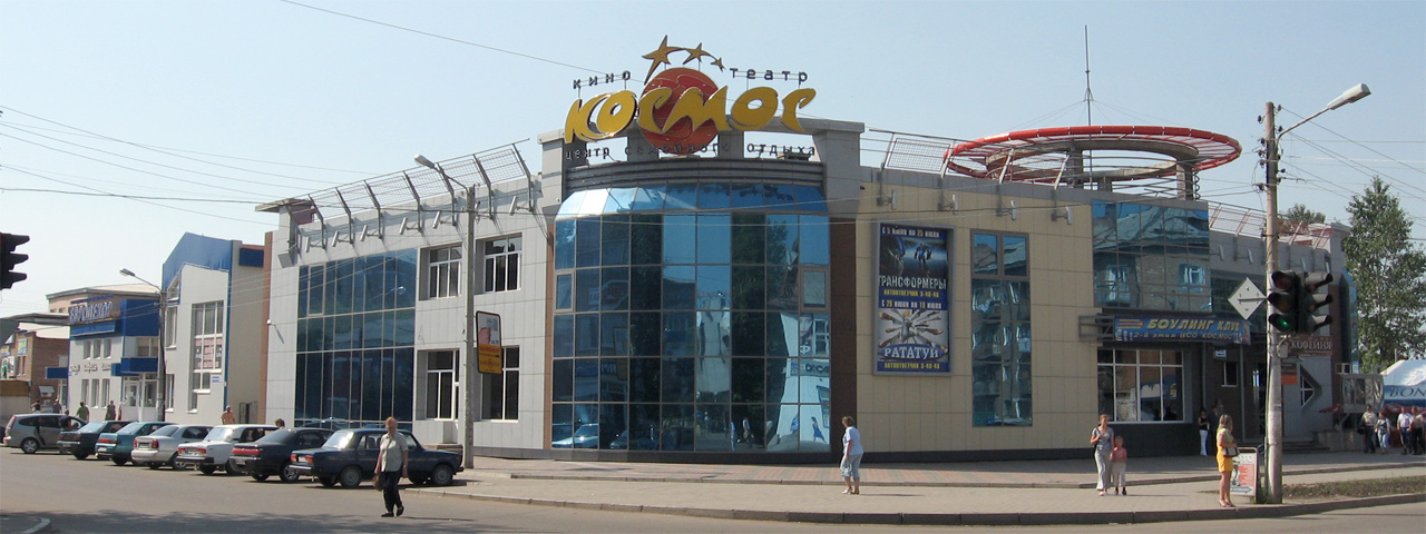 K-t-Kosmos-Kansk